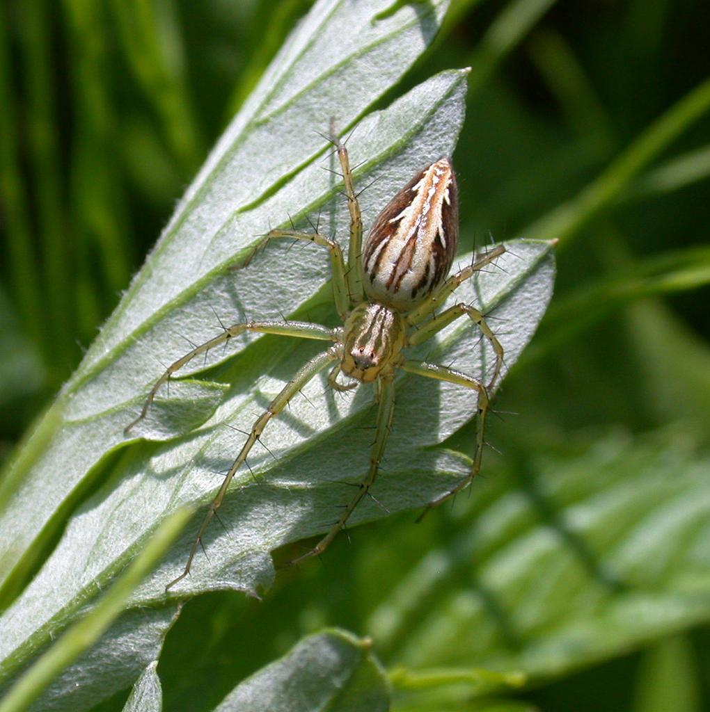 A Lynx spider in Tanabe city, Wakayama prefecture, Japan